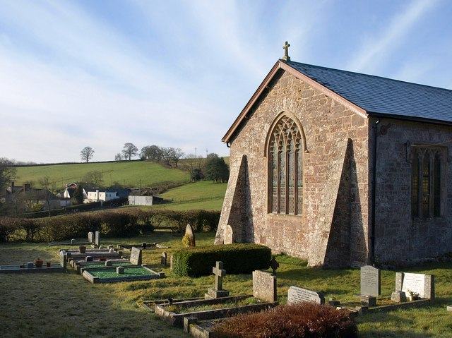 St Luke's chapel, Posbury. Within the churchyard of 1736573, showing the buttressed east end . Across fields on the left is 1736880.